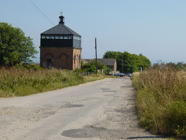 Foredown Tower in Portslade, East Sussex, England